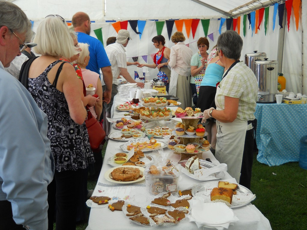 English Festival, St. George's Day, RIverside, Medway, Womens' Institute cake stall